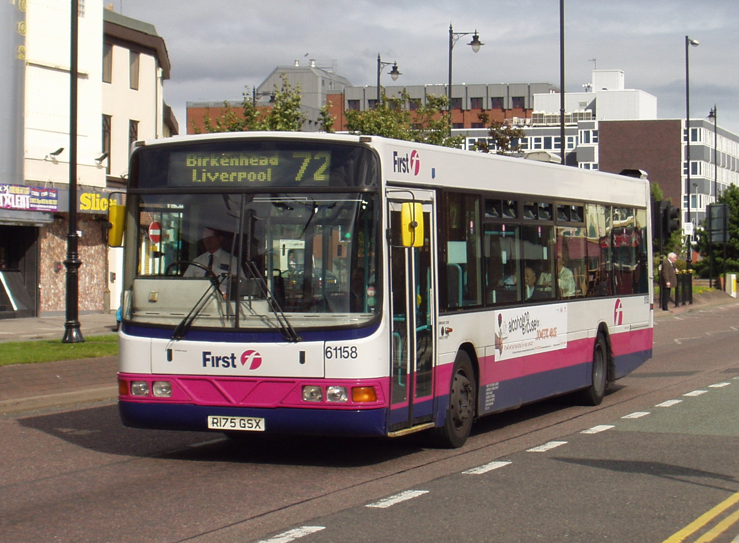 First bus 61158, Scania L113 with Wright Axcess-Ultralow body, on the A553 Conway Street, Birkenhead town centre, Wirral.